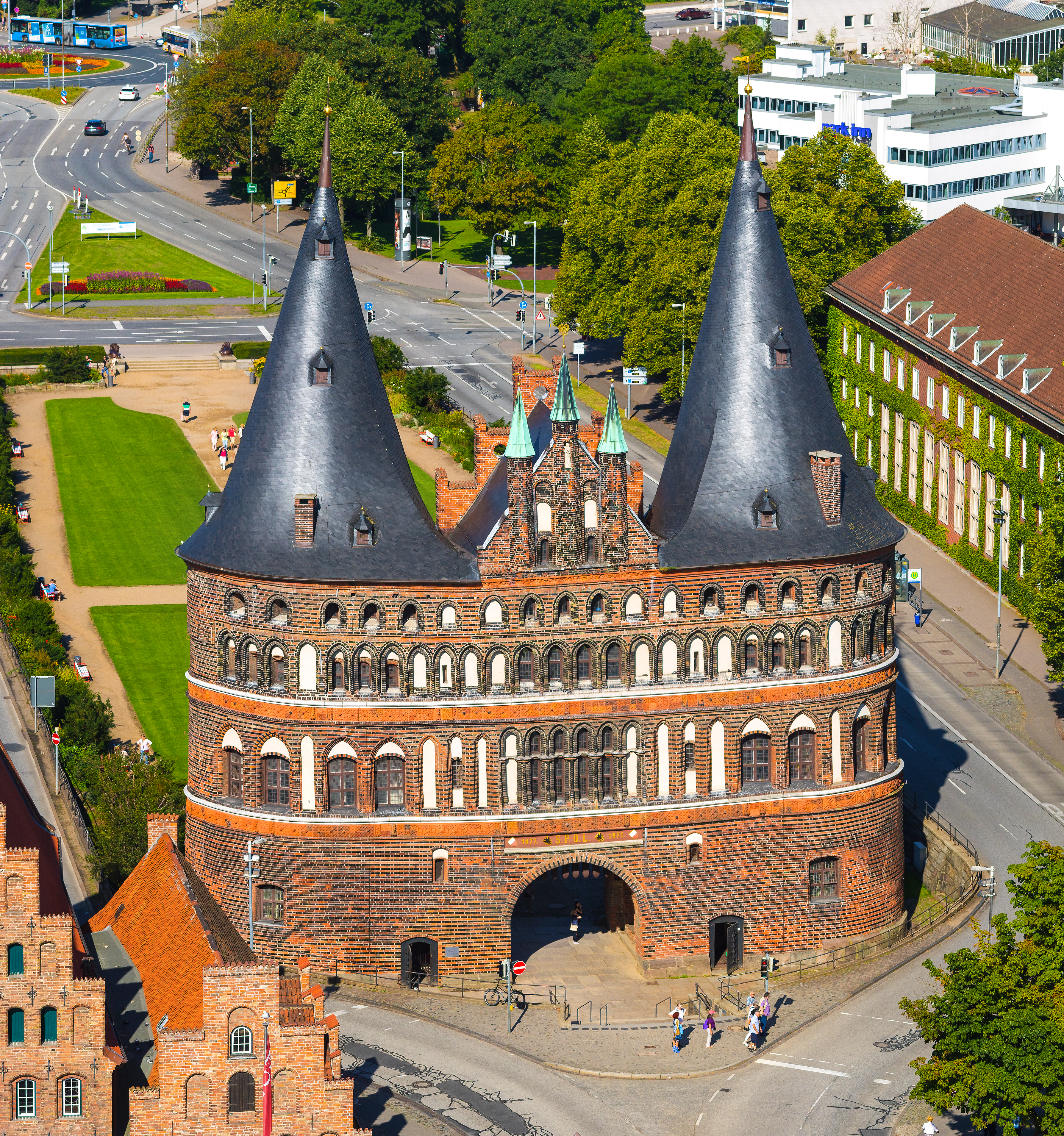 Holstentor in Lübeck, Germany. View from Petrikirche. View over the Holstenplatz. To the lower left the historical Salzspeicher.